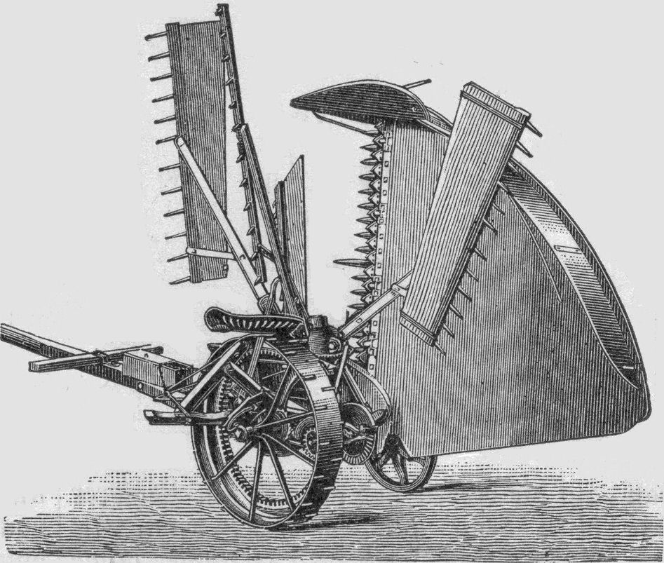 Illustration of a "New Reaper" self-rake reaper (a McCormick model likely, but unsure; McCormick's "New Reaper" was a reaper-binder, this one isn't.)